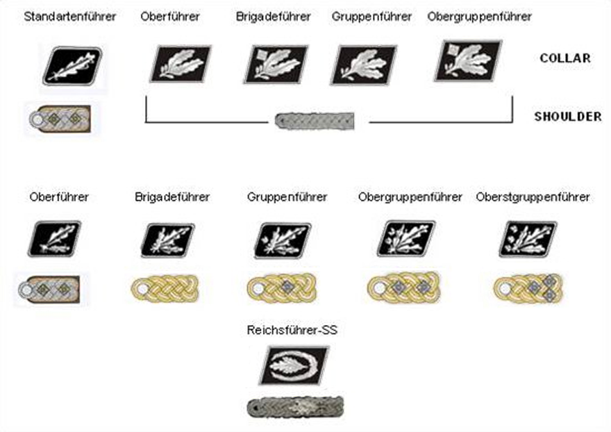 SS senior and general officer rank insignia (collar tabs and shoulder straps), from 1933 till April 1942 (top row) and after (bottom row) April 1942. On the lowest row, insignia for the Reichsführer-SS which remained inchanged from 1934 till 1945.